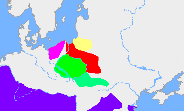 map based on Image:Europe plain rivers.png my own map, based on User:Dbachmann's blank map. The extensions of the cultures are based on Zbigniew Babik: "Najstarsza warstwa nazewnicza na ziemiach polskich" Cracow 2001. The map shows the extent of the Wielbark culture (Goths) in red, a Baltic culture (Aesti?) in yellow, and the Debczyn Culture, pink. The Roman Empire is purple.